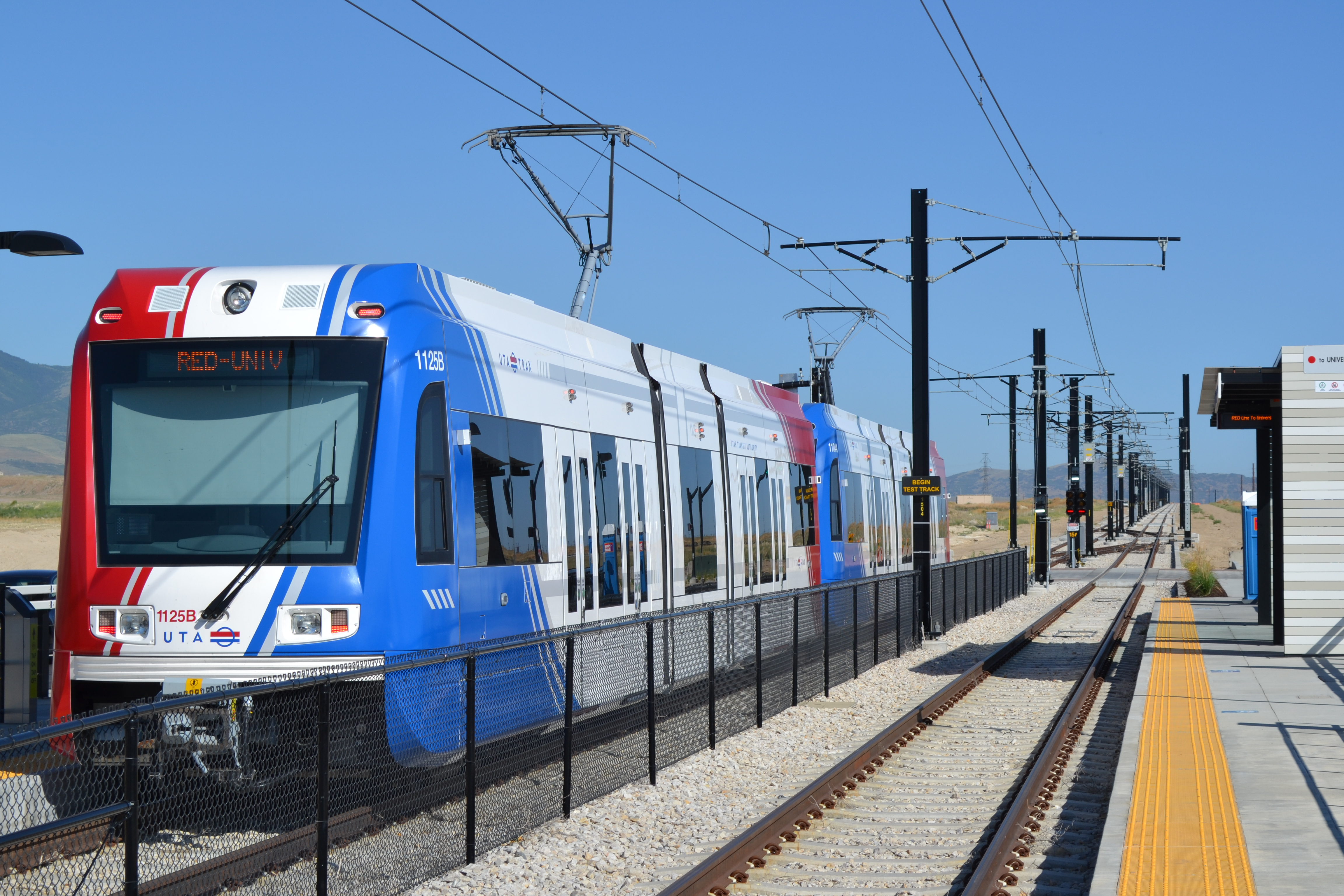 A Utah Transit Authority Trax light rail vehicle traveling south on the red line in Daybreak. The LRV is a Siemens S70. This is the southern terminus of the red line, which runs from Daybreak to the University of Utah. Twenty-five stations and about forty-five minutes later, you've been from terminus to terminus and from one corner of a metropolitan area to another. The southern Daybreak station, as well as its northern counterpart, has this modern design that can't be found outside of Daybreak. I like it. Note that in the background of the photo, there's nothing. From the southern terminus of the red line to the 5600 West station, it appears as if the line runs through a desert plain. Daybreak is close by, but development hasn't reached the tracks just yet.